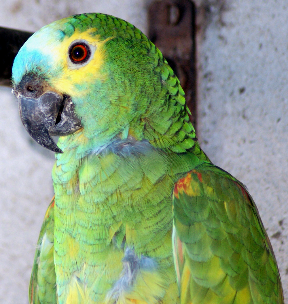 A pet Blue-fronted Amazon in Brazil.